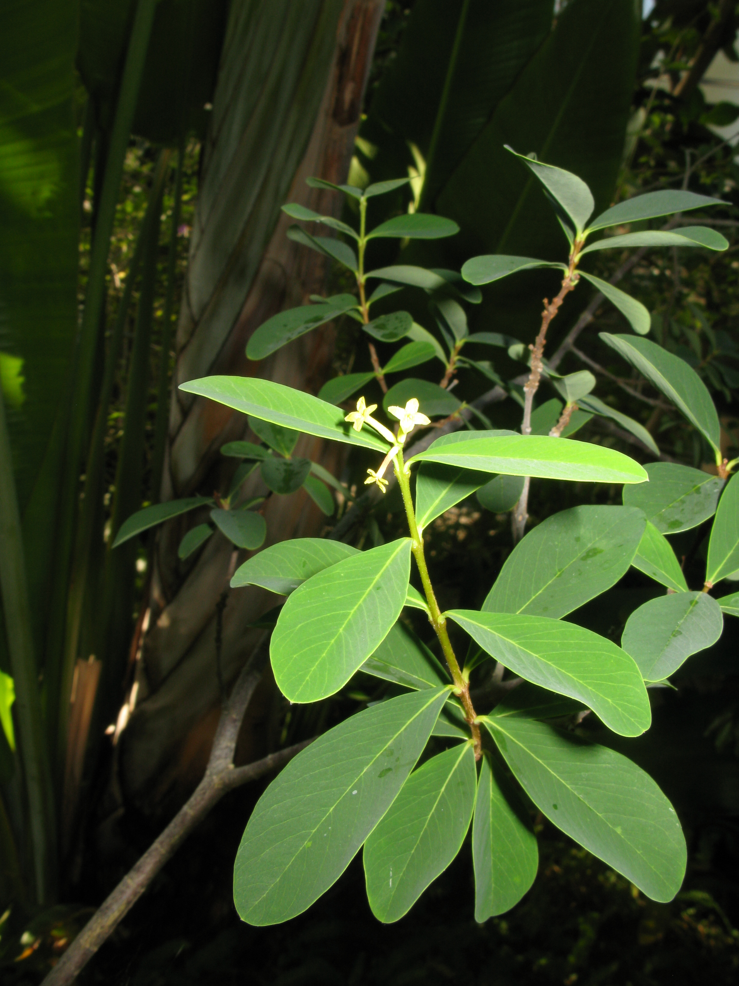 Wikstroemia pseudoretusa, Yumenoshima Tropical Greenhouse Dome, Tokyo, Japan